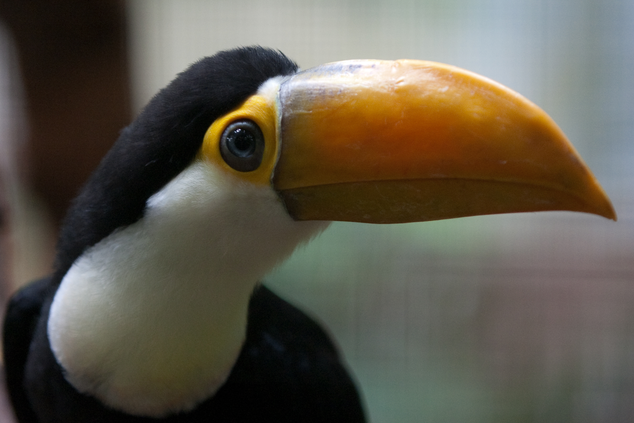 A juvenile Toco Toucan at Diergaarde Blijdorp (Rotterdam Zoo), Netherlands.